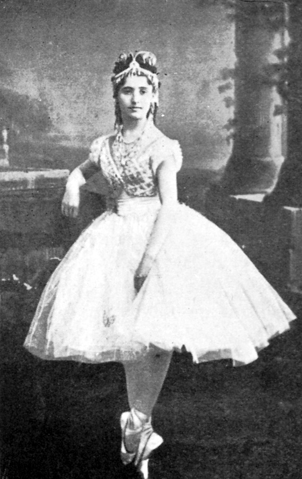 Photo of the ballerina Giuseppina Bozzachi (1853-1870) costumed as Swanilda in the ballet Coppélia. Paris, France, 1870.